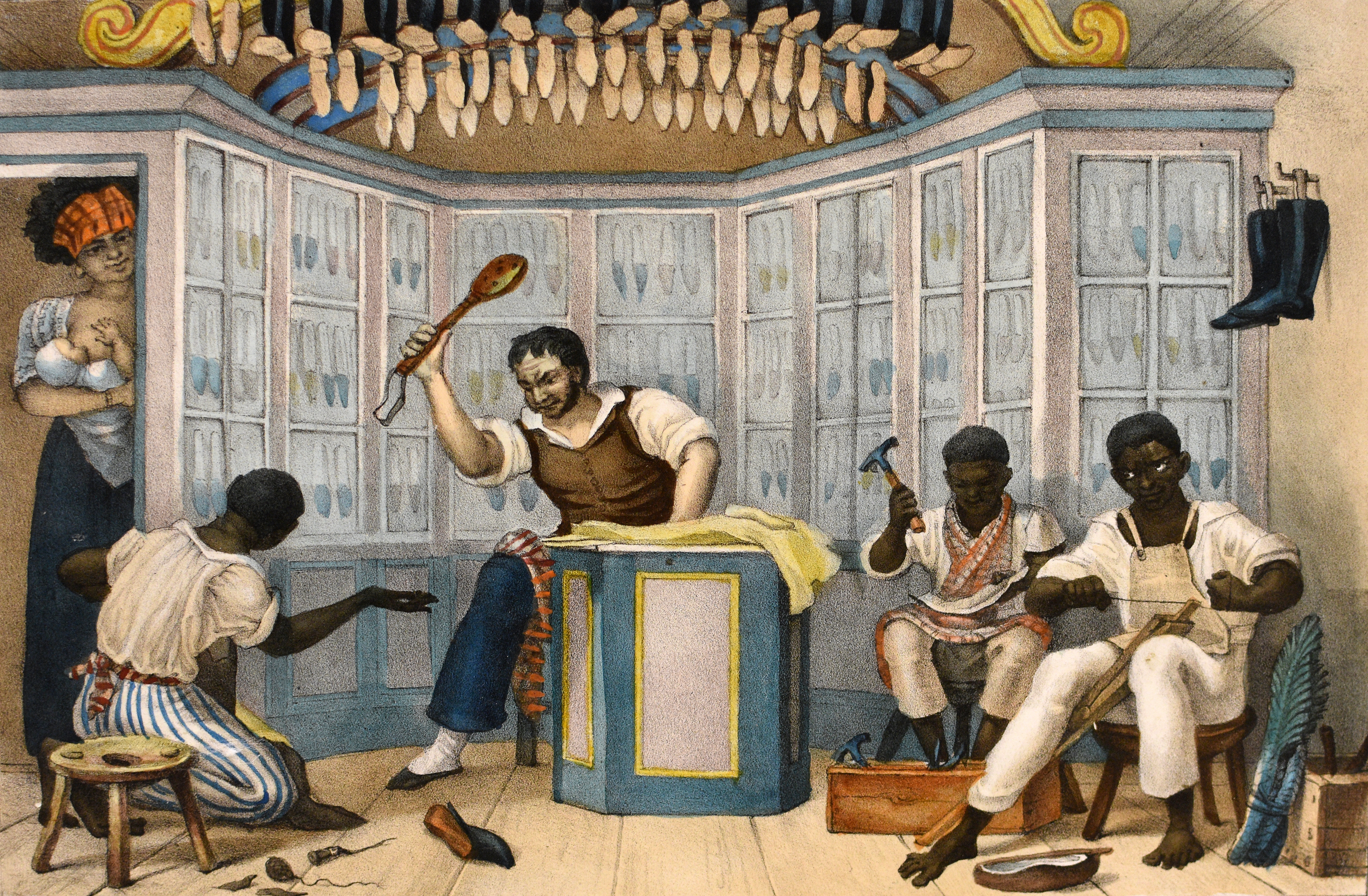 Shoe Shop by Jean-Baptiste Debret The artist shows two reactions in the black faces: One look with fear the punishment by a whip paddle which his friend is submitted to, maybe thinking that it may happen to him as well. The other seems to pretend not to notice it; his attention is in the task he is given, so that no punishment may befall him because of the care he has for his job. In general, the body language and expression of all tree seems to express the condition of submission in which they are, and, in some sense, legitimize the action of the shoemaker.[1] The situation described could confirm the brutality of the slave system, which was of course condemned by the French-post revolutionary view of Debret. But there is also someone who is watching the scene, by the door to the left. That is the mulatta of a Portuguese shoemaker, who, while breastfeed her son, has a different opinion of the situation. She seems to be curious.[1] She is not rejecting the scene or disgusted by what she is seeing, but appears to feel a sensation of happiness about the scene she is contemplating. Is this mulatta above in the social scale because of her relationship with the shoemaker? That is why she express some masochist pleasure in witnessing the suffering of others? That is what Debret probably wanted to portrait, that this mulatta could not resit the temptation to spy the punishment.[1]